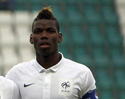 U-19 Spain vs France.